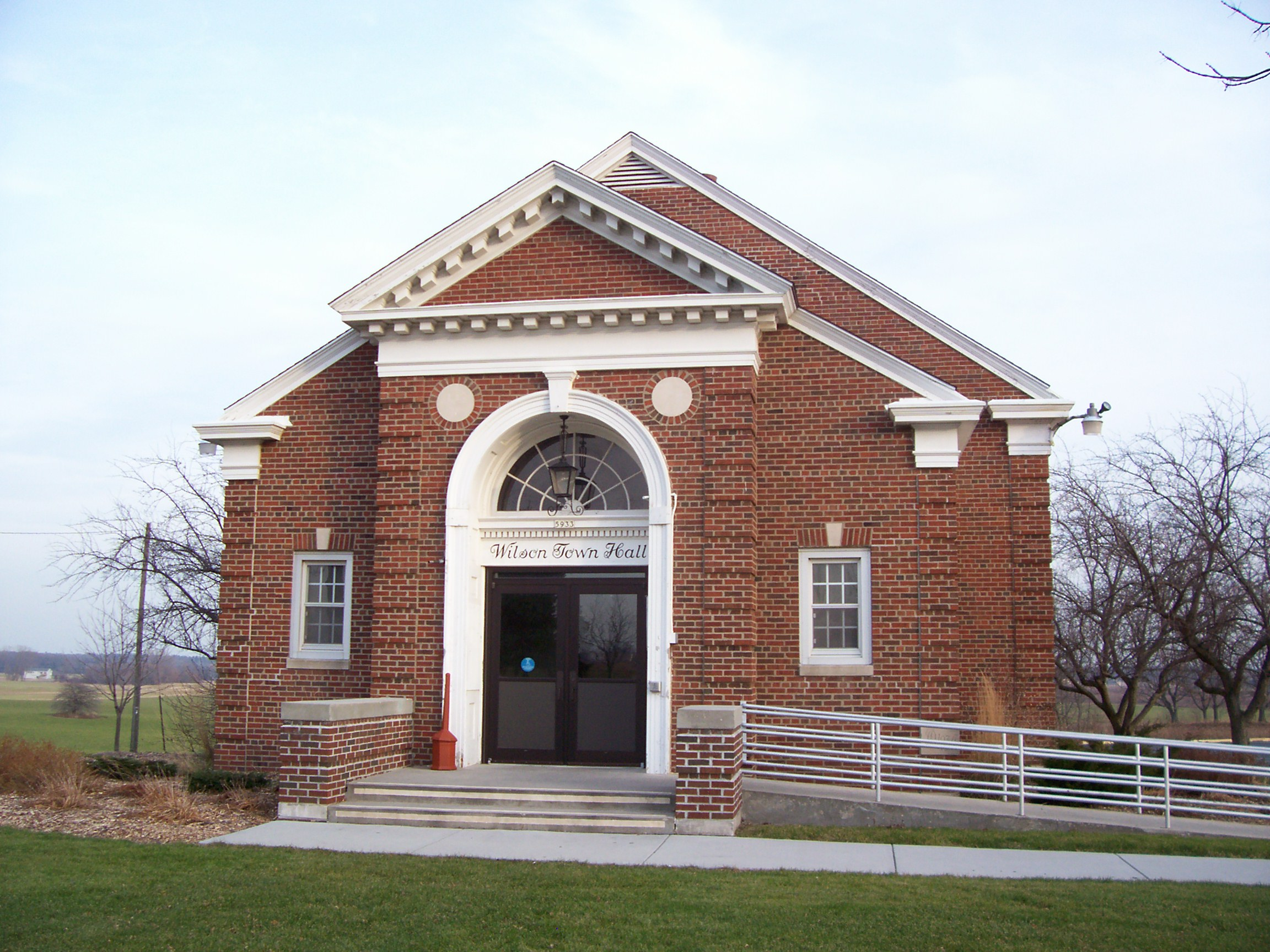 The townhall for the Town of Wilson, Wisconsin, USA.